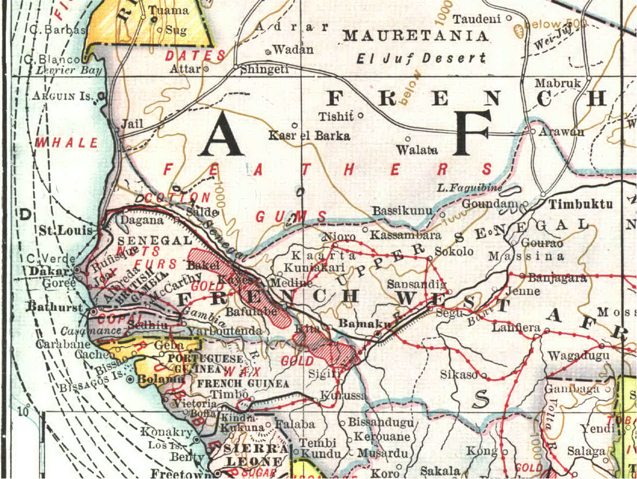 Map of Africa